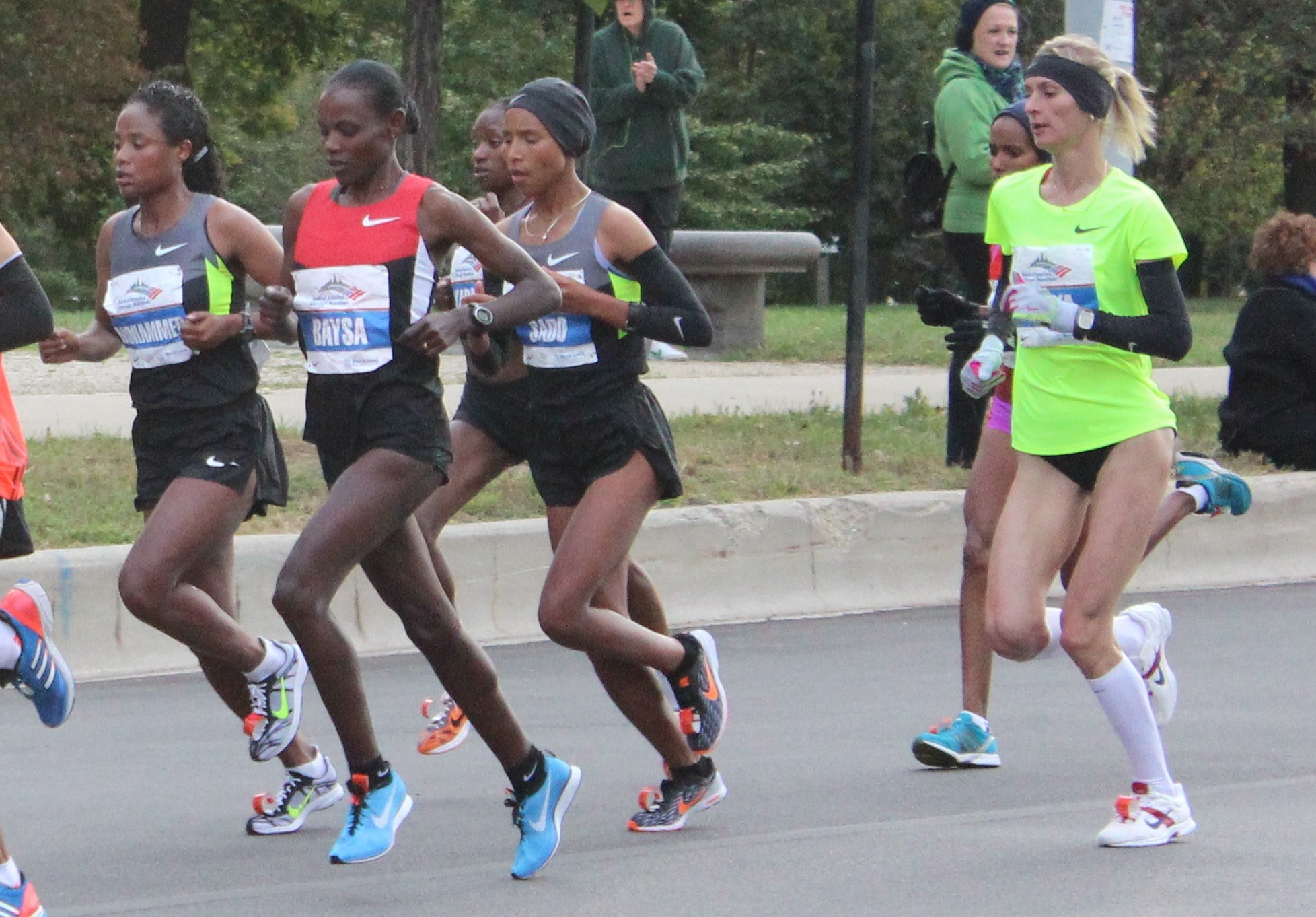 2012 Chicago Marathon - lead women